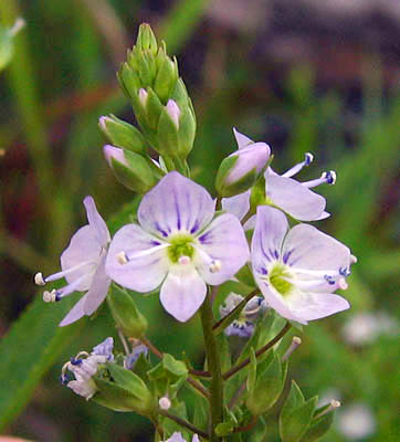 Veronica anagallis-aquatica. Santa Monica Mountains National Recreation Area, California — Taken at Circle X Ranch: Canyon View Trail. NPS photo, no copyright.